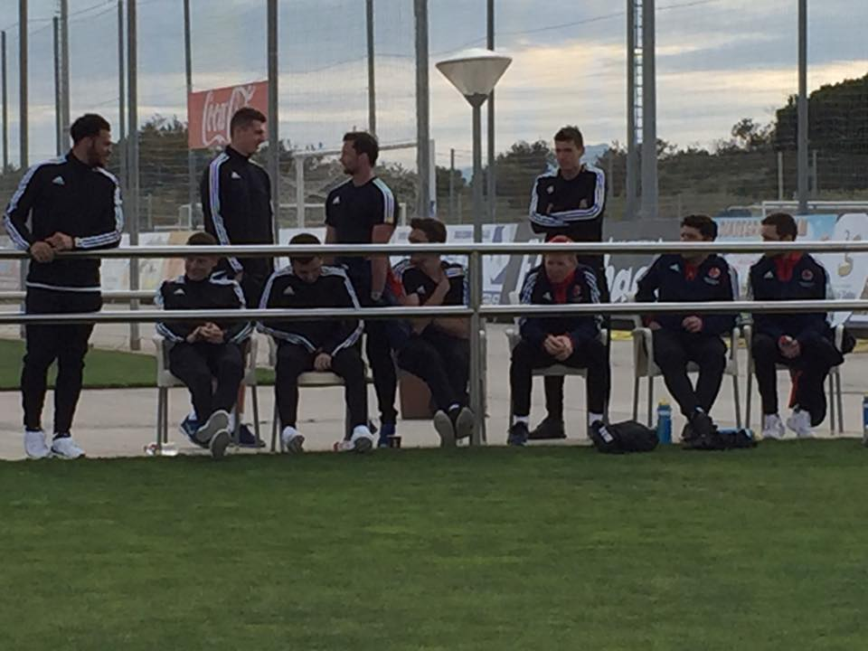 Photo taken at IFCPF Pre Paralympic Tournament Salou 2016 using personal iPhone.